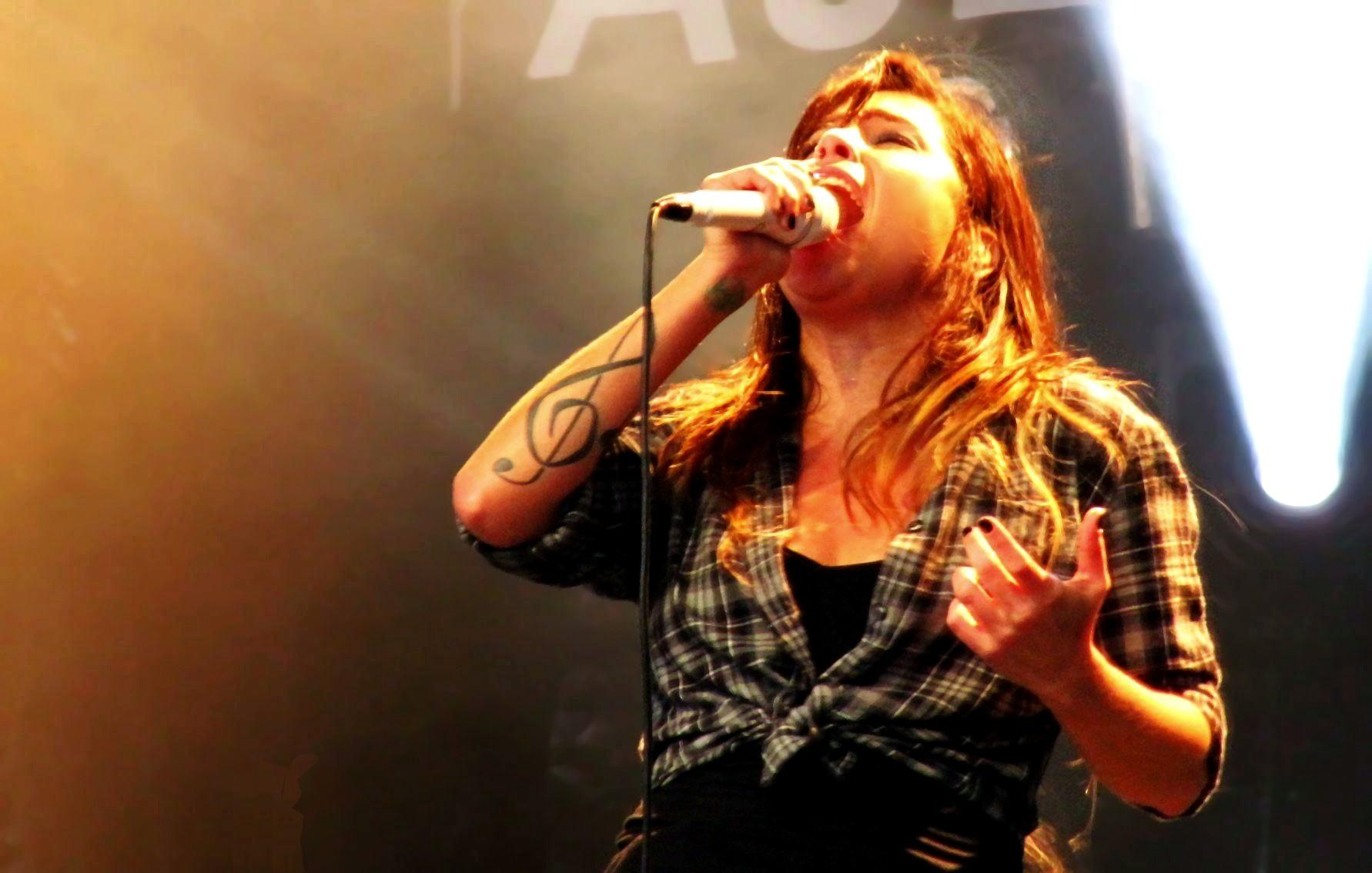 Pitty [Virada Cultural] - Jundiaí (23/05)